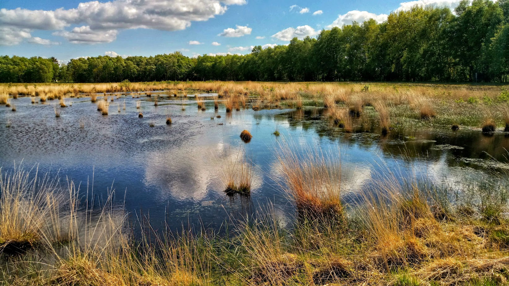 Stapeler Moor